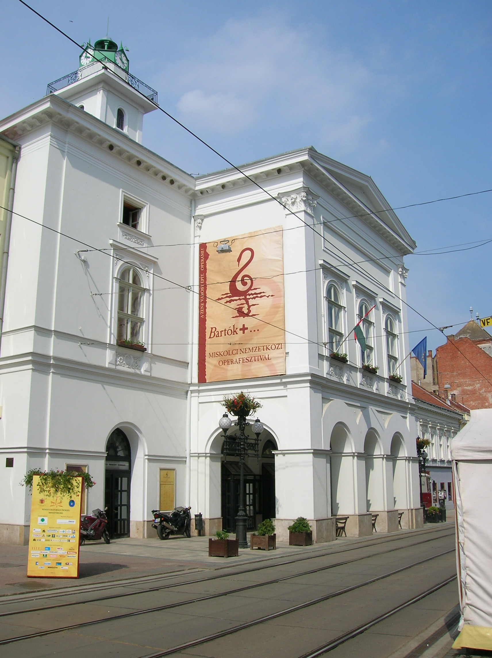 National Theatre of Miskolc, Hungary. During the International Opera Festival.